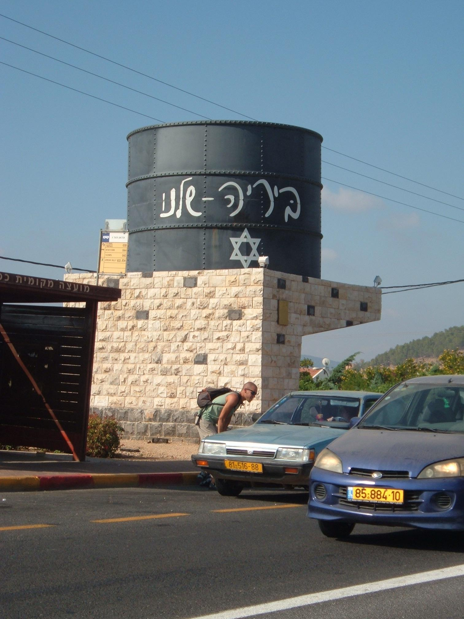 Water tank in Kfar Tavor, Israel.